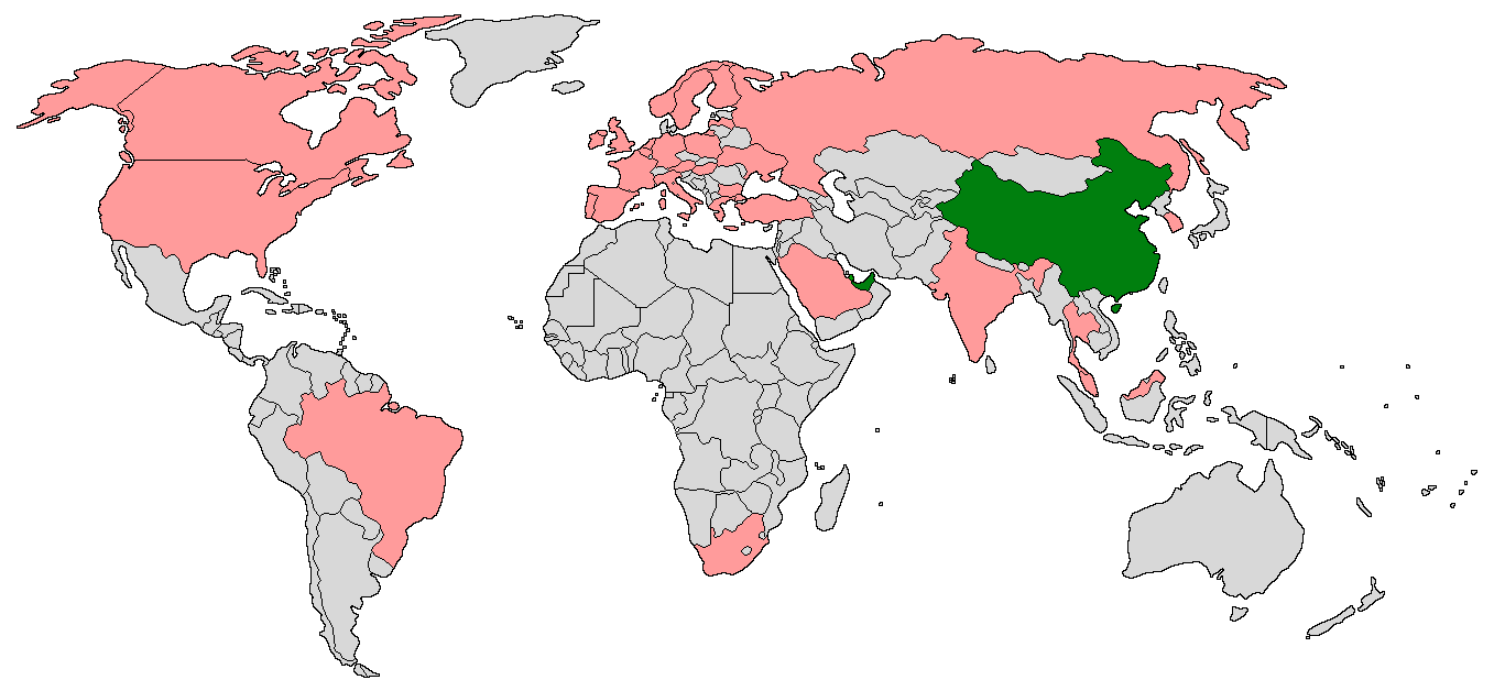 World map displaying the countries raced in by the Formula 1 Powerboat World Championship in its 2014 season in green. Former host nations shown in pink.